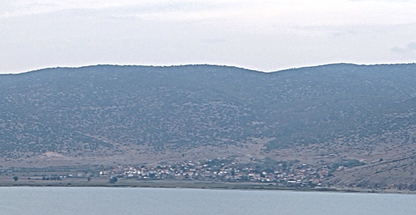 Tuminec (Kallamas) in Albania